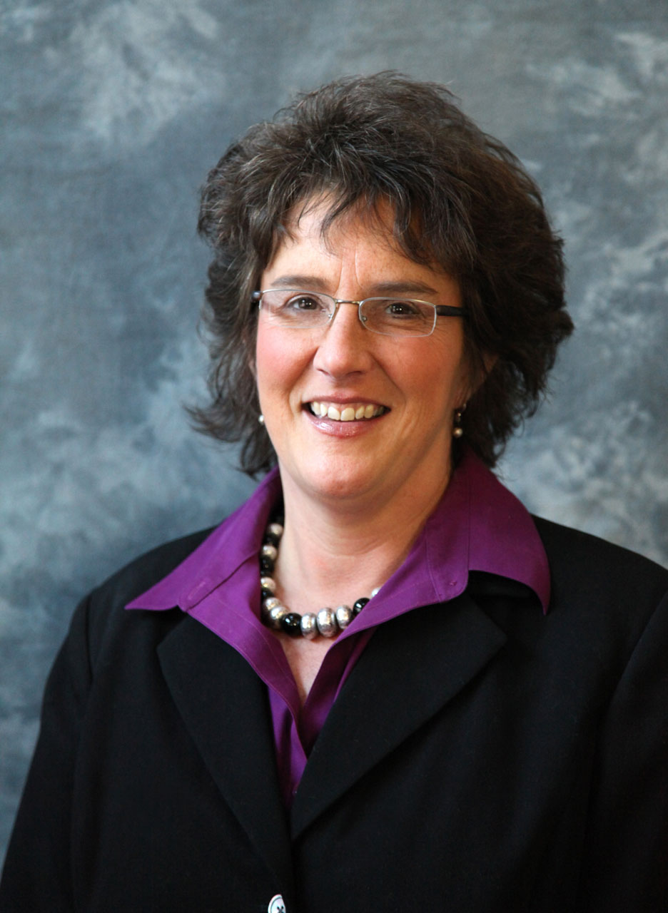 A picture from one of the original photo shoots leading up to Jackie Walorski's announcement to run for Congress.